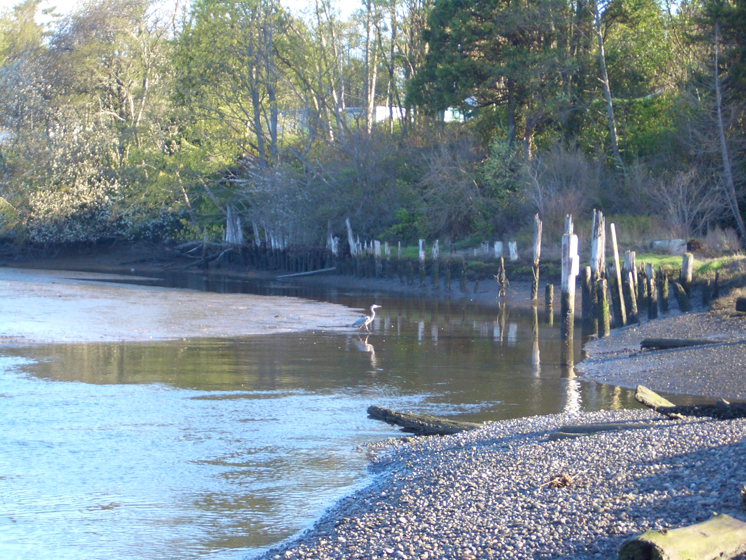 A Great Blue Heron wading in Semiahmoo Bay, near the mouth of Campbell River (just south of White Rock, British Columbia, a few kilometers north of US border).